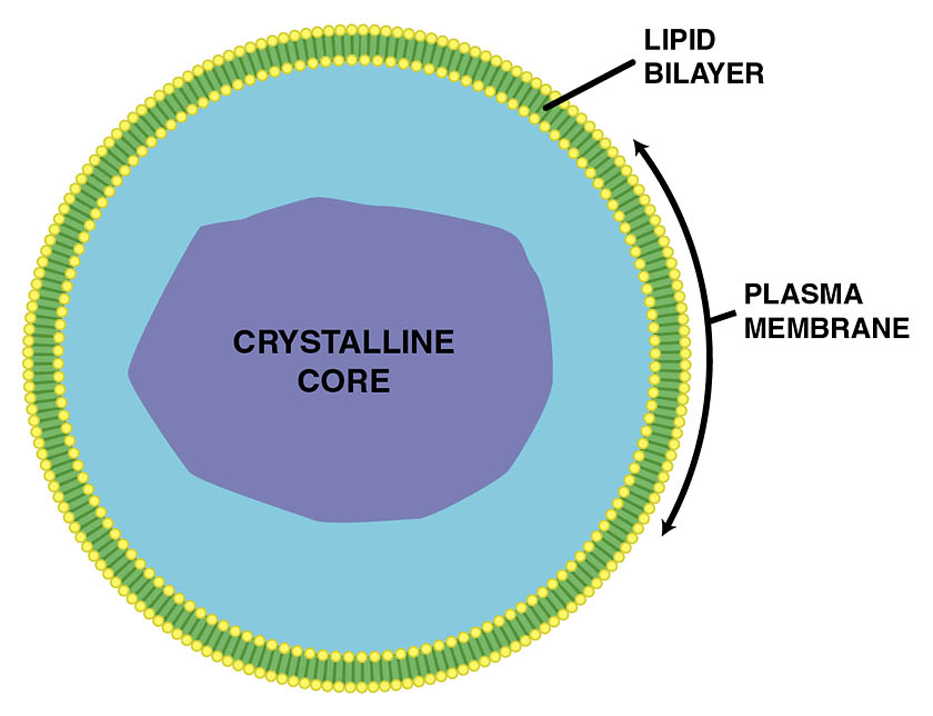 Simple diagram of peroxisome